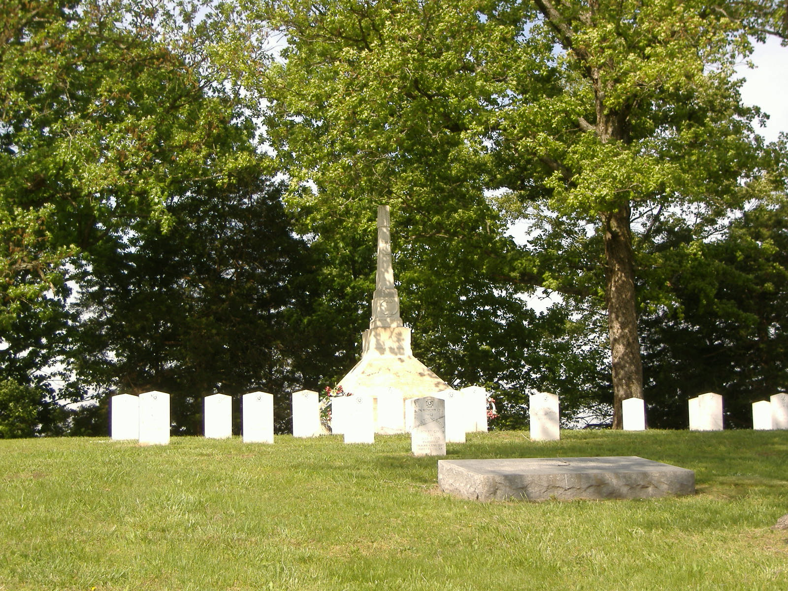 Battle of Tebb's Bend Monument in Taylor County, Kentucky